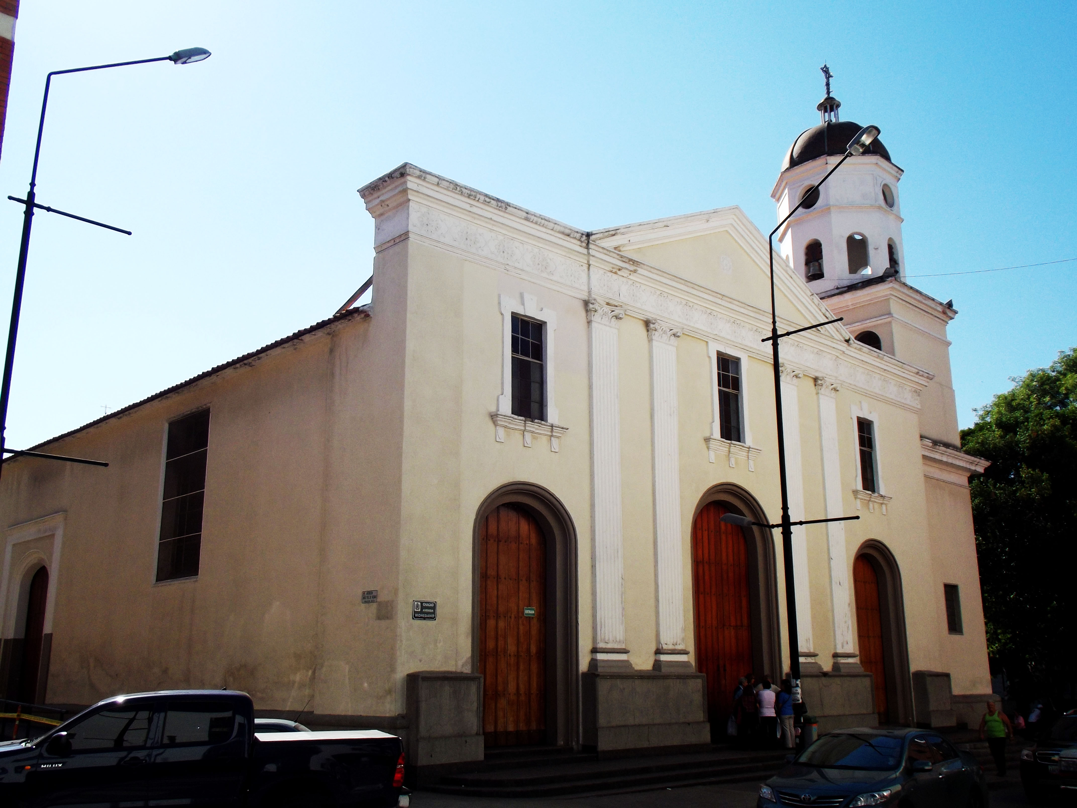 Iglesia Parroquial De San José De Chacao